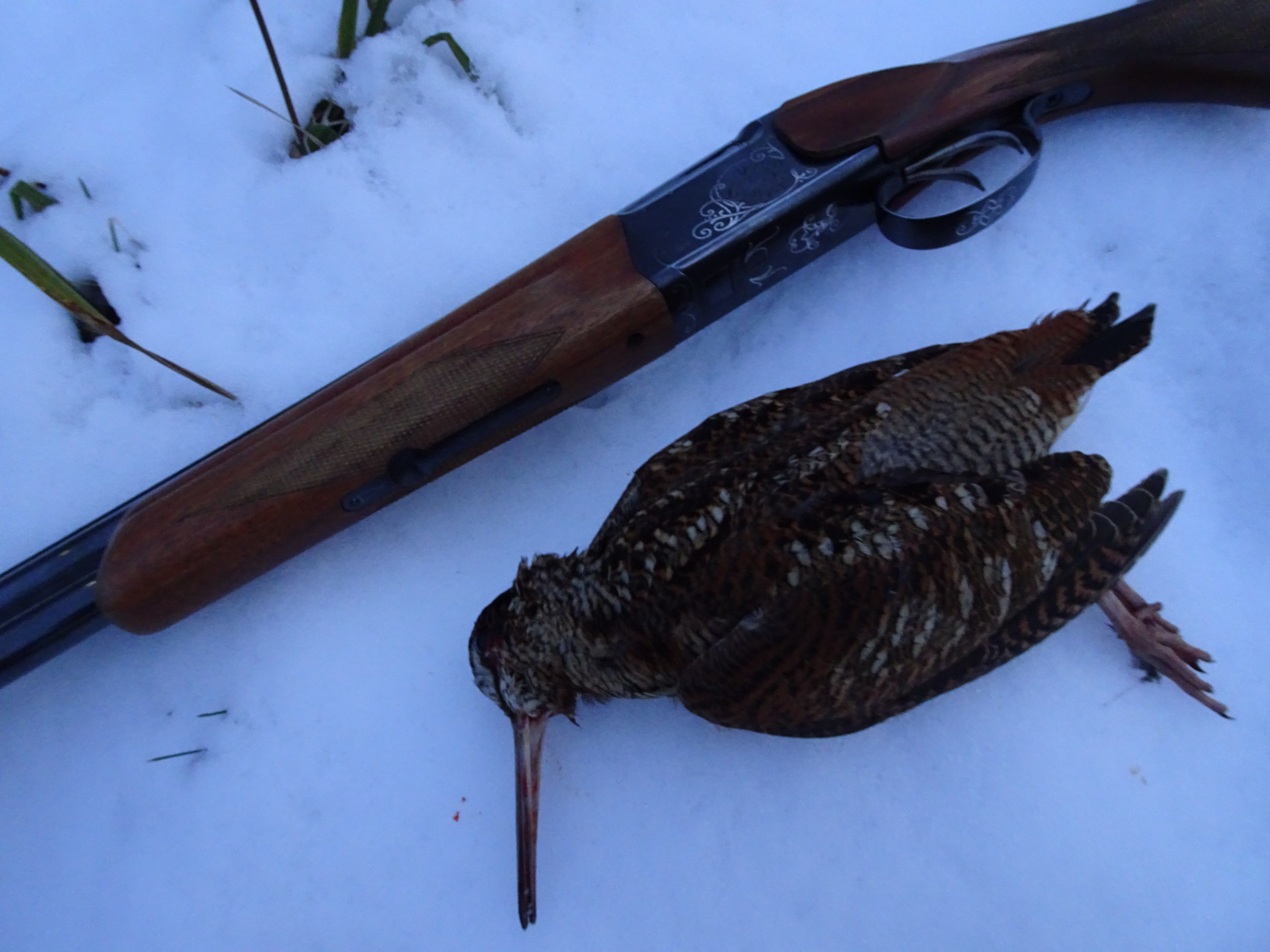 A Eurasian Woodcock shot in Istra District of Moscow Region of Russia